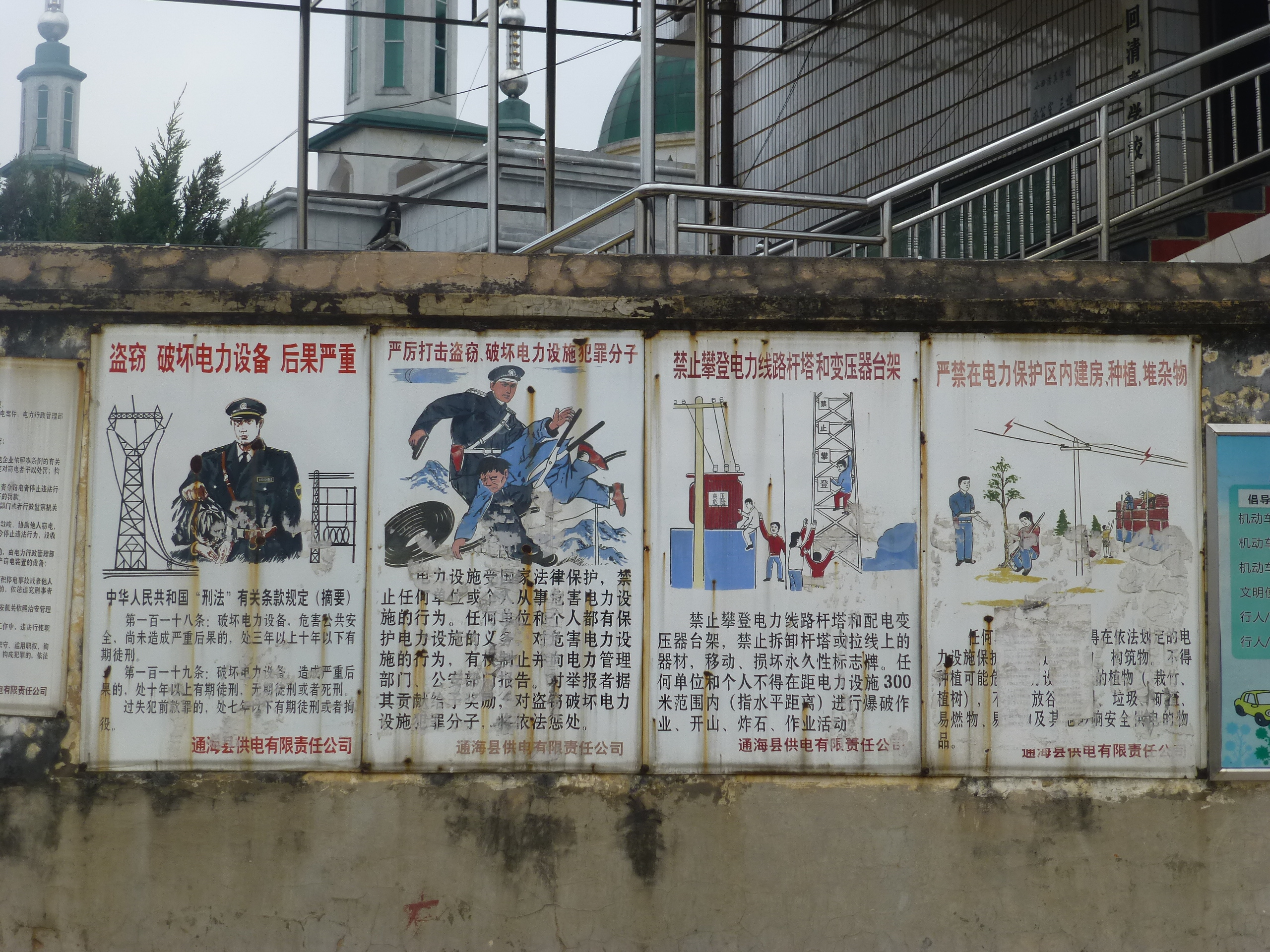 Posters explaining the illegality of the theft of electric cable, or otherwise damaging power transmission lines, posted outside of a mosque in Xiaohui Village, Hexi Town, Tonghai County, Yunnan. Nearly identical posters can be seen in other parts of China (e.g. Fujian), so they are probably produced by a national agency.